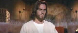 Screenshot of Jeffrey Hunter as Jesus Christ, from the trailer of the film King of Kings (1961).